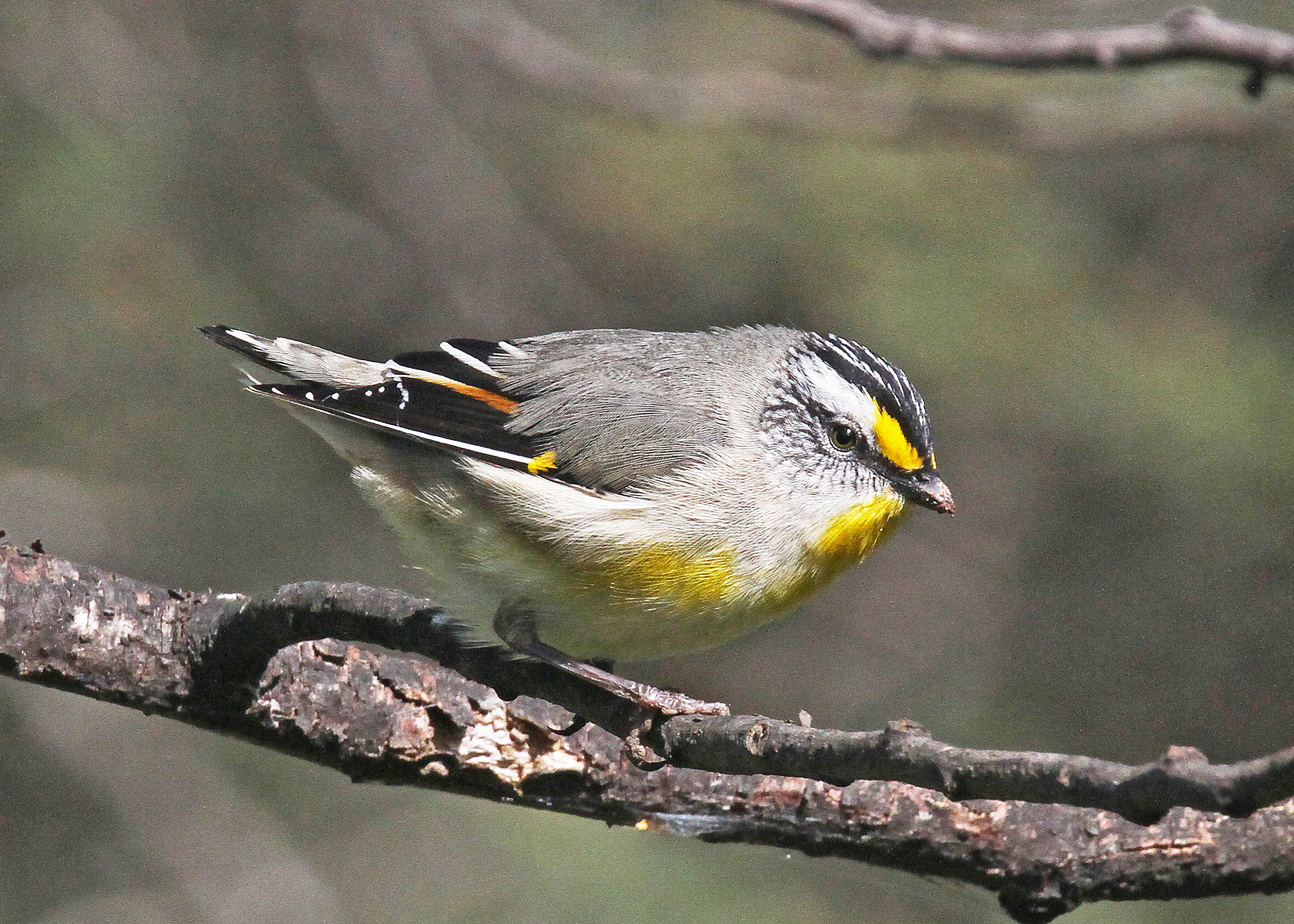 photo of Striated Pardalote